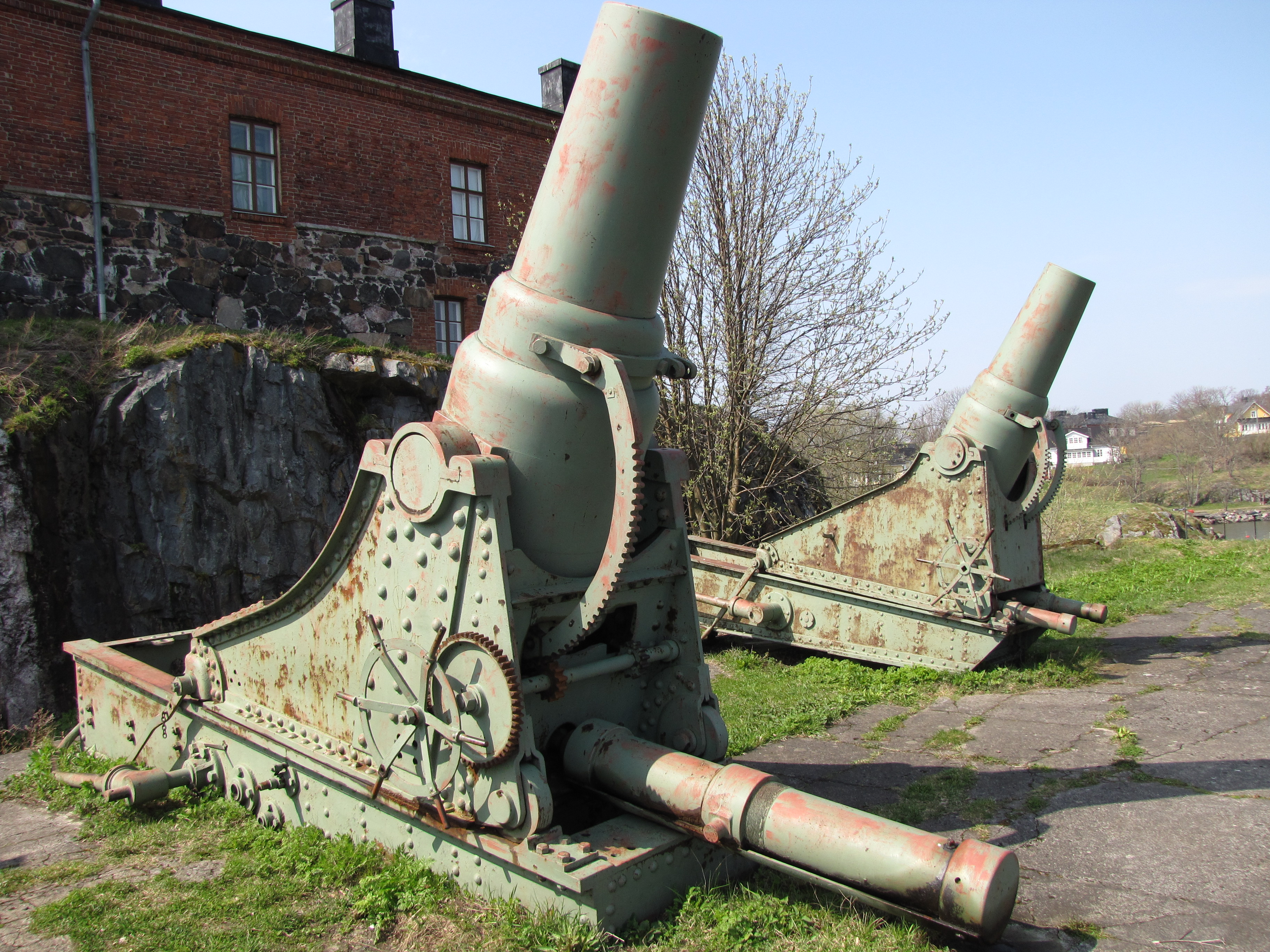 Imperial Russian 11 inch and (last) 9 inch model 1877 coastal mortars in Suomenlinna.